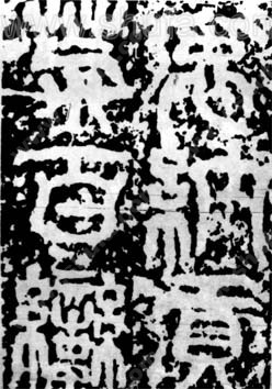 Inscription with the Ritual to God at Mt. Guoshan. "封禅国山碑"